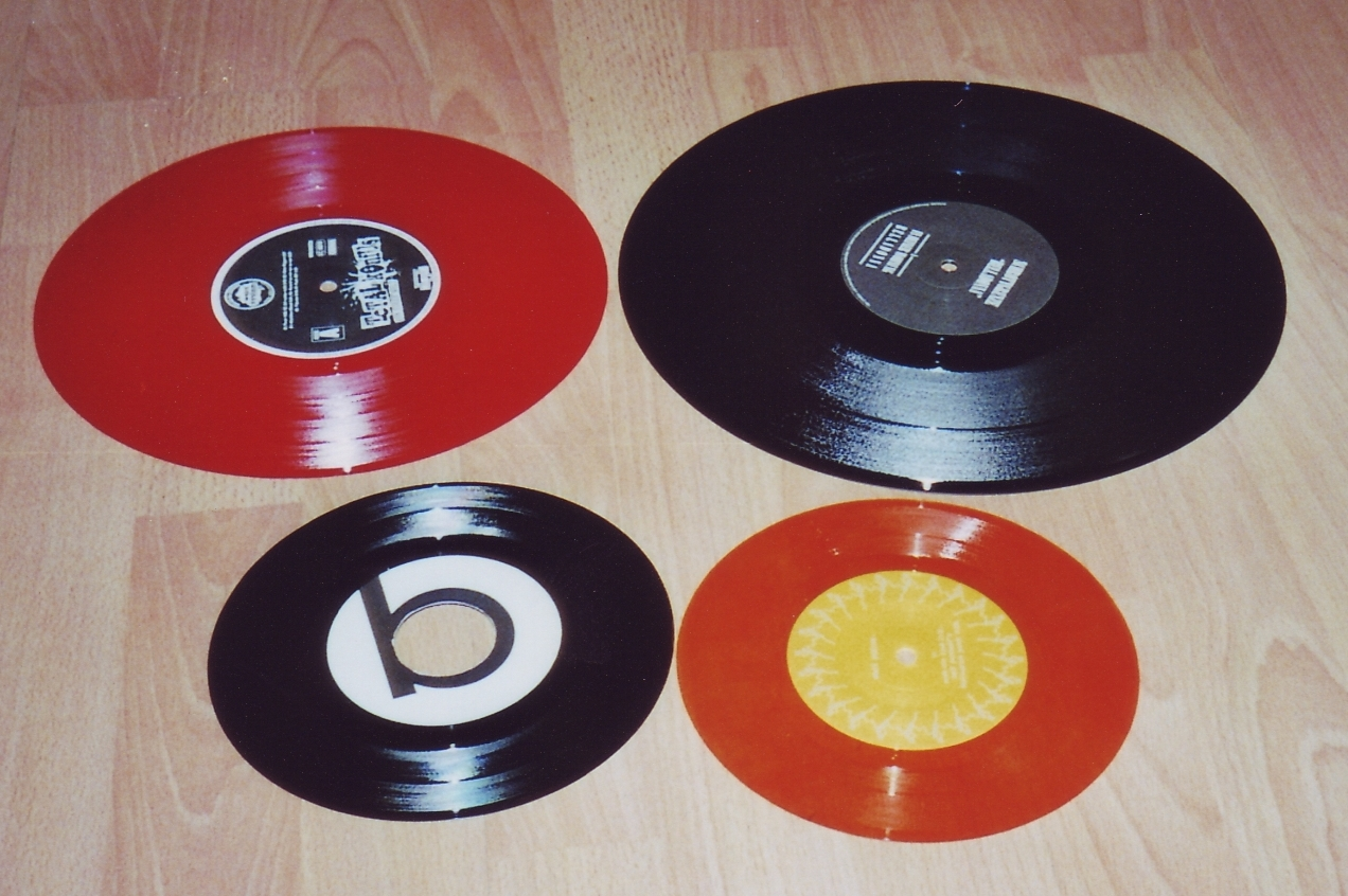 various formats of vinyl singles